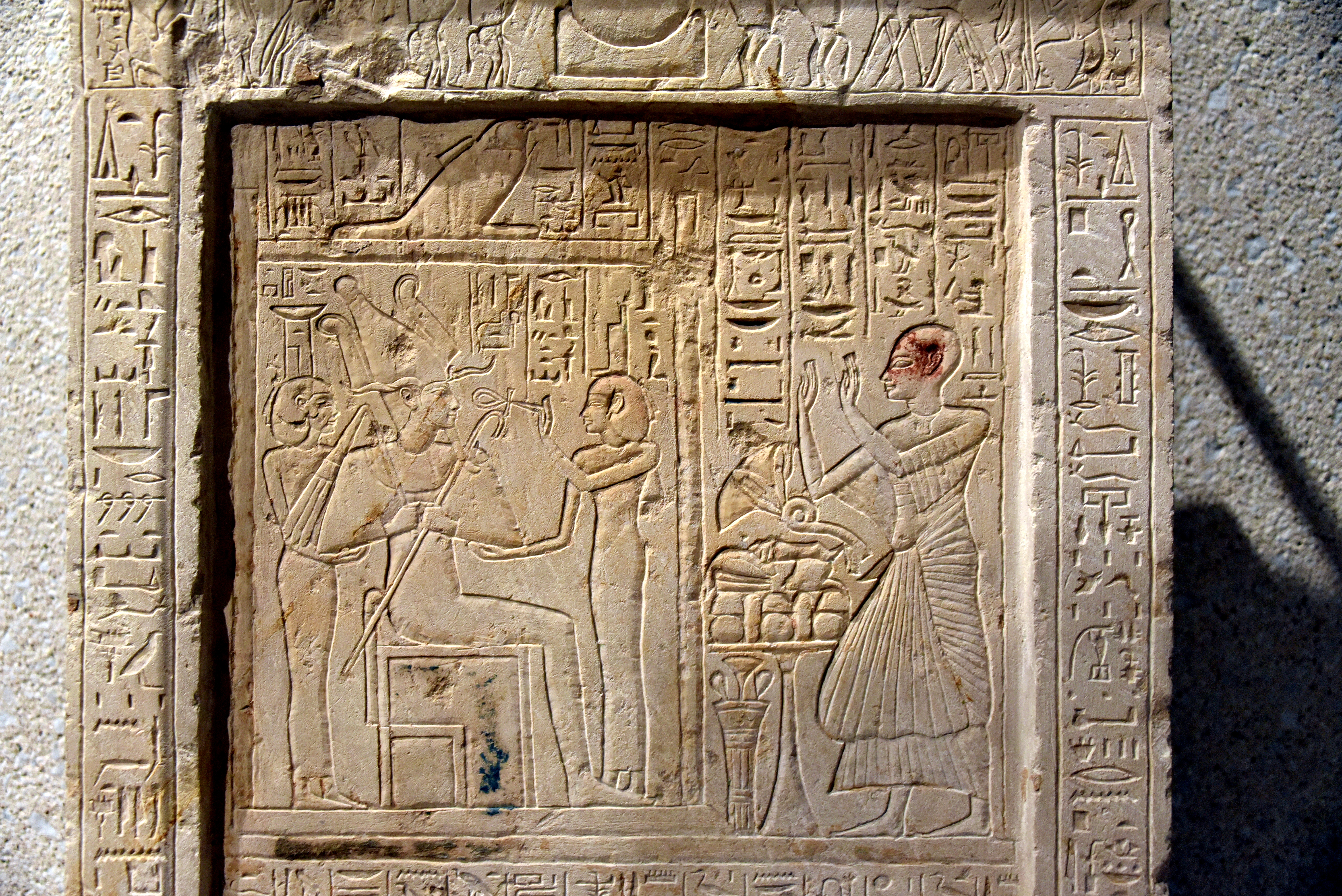 Stela of Seba. Seba was a scribe of the treasury of the god Ptah. New Kingdom, 19th Dynasty, c. 1250 BCE. From Memphis, Egypt. Neues Museum, Berlin, Germany. This is the mid-part of the stela. Seba is praying before an offering table, in front of the enthroned Osiris, who is flanked by the goddesses Isis and Nephthys. Limestone.